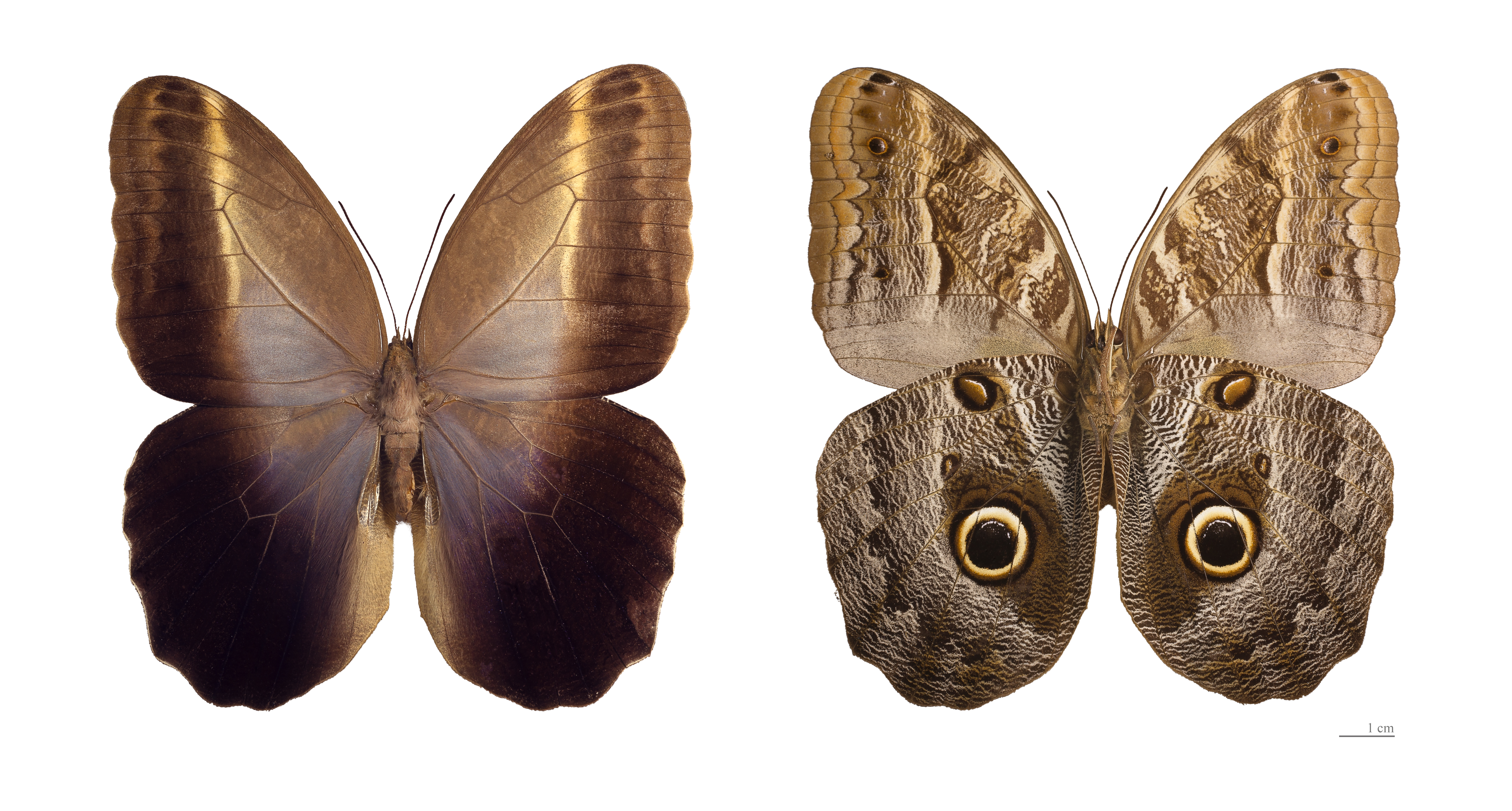 2 views of the same specimen.